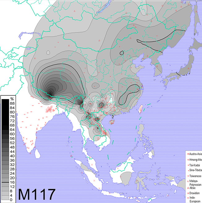 Geographic distributions of Y-DNA haplogroup O3-M117 frequency.